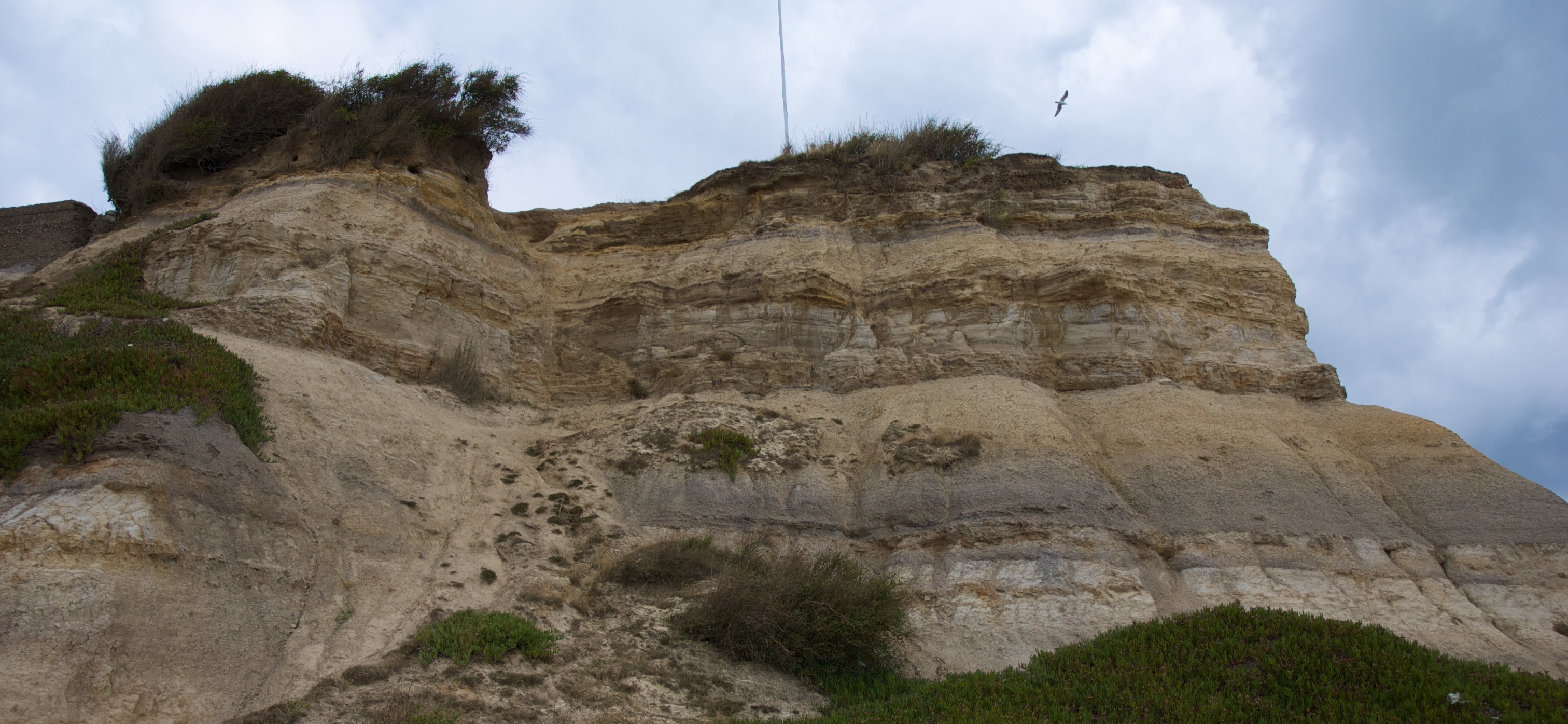 Cliffs by beach at Bexhill-on-Sea in England. The sedimentary rocks of the cliff belong to the Wealden Group of rocks and they were formed about 139 to 134 million years ago during the Early Cretaceous Epoch of the Earth's geological history.